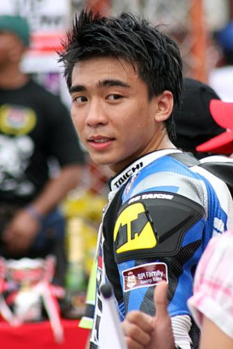 Maico Greg Buncio was a Filipino Motorcycle Racer in the Philippines. Died in a tragic accident in Clark, Pampanga on 15 May 2011